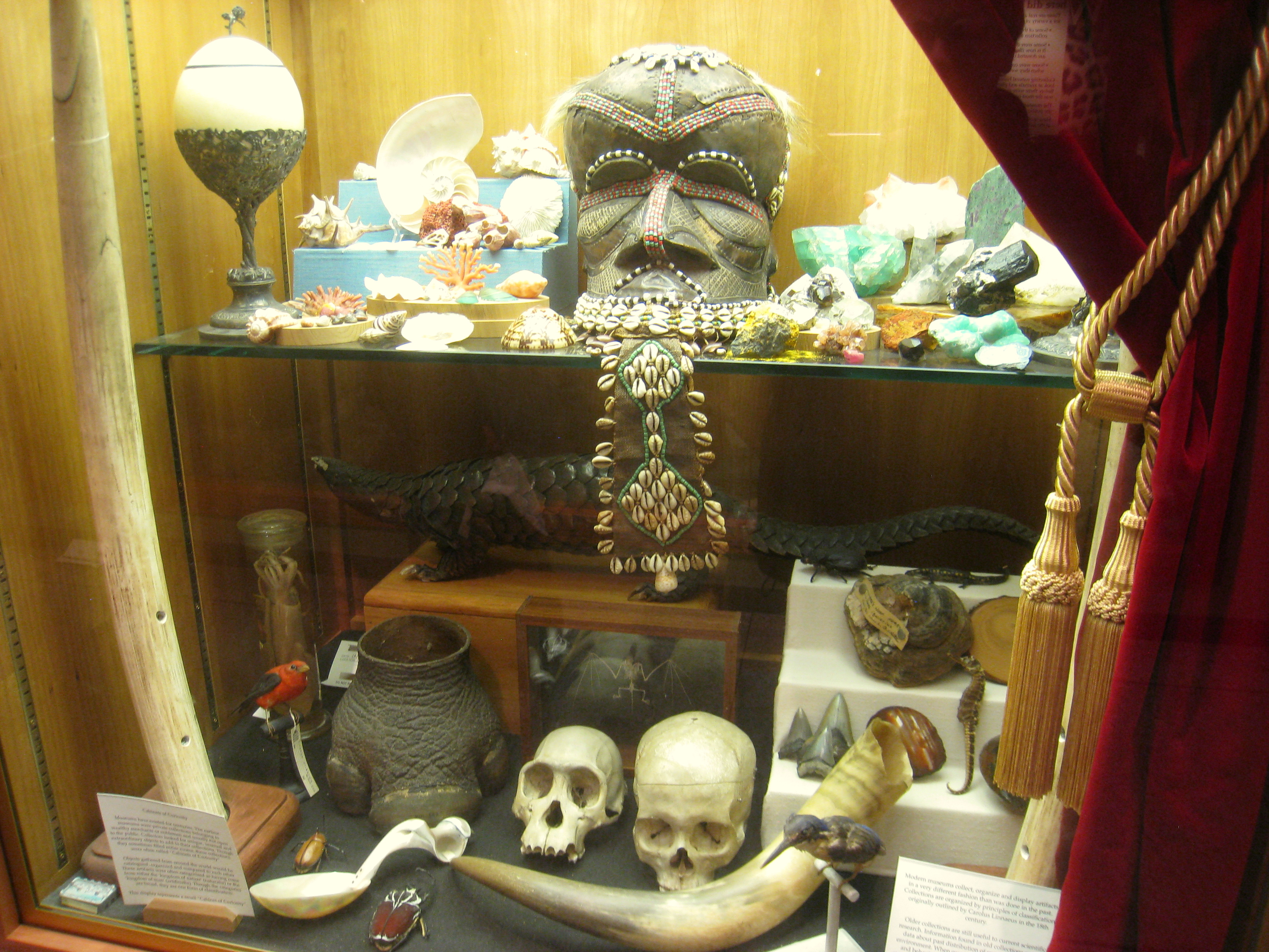 Cabinet of curiosities in Museum of Science, Boston, Massachusetts, USA. Note that there was no prohibition against photography in the museum.